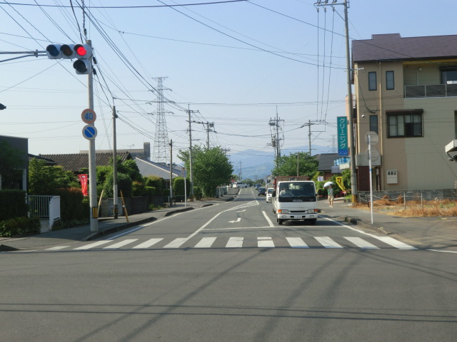 Ending point of Fukuoka Prefectural Road No.586 of Ukiha city,Fukuoka prefecture,Japan.